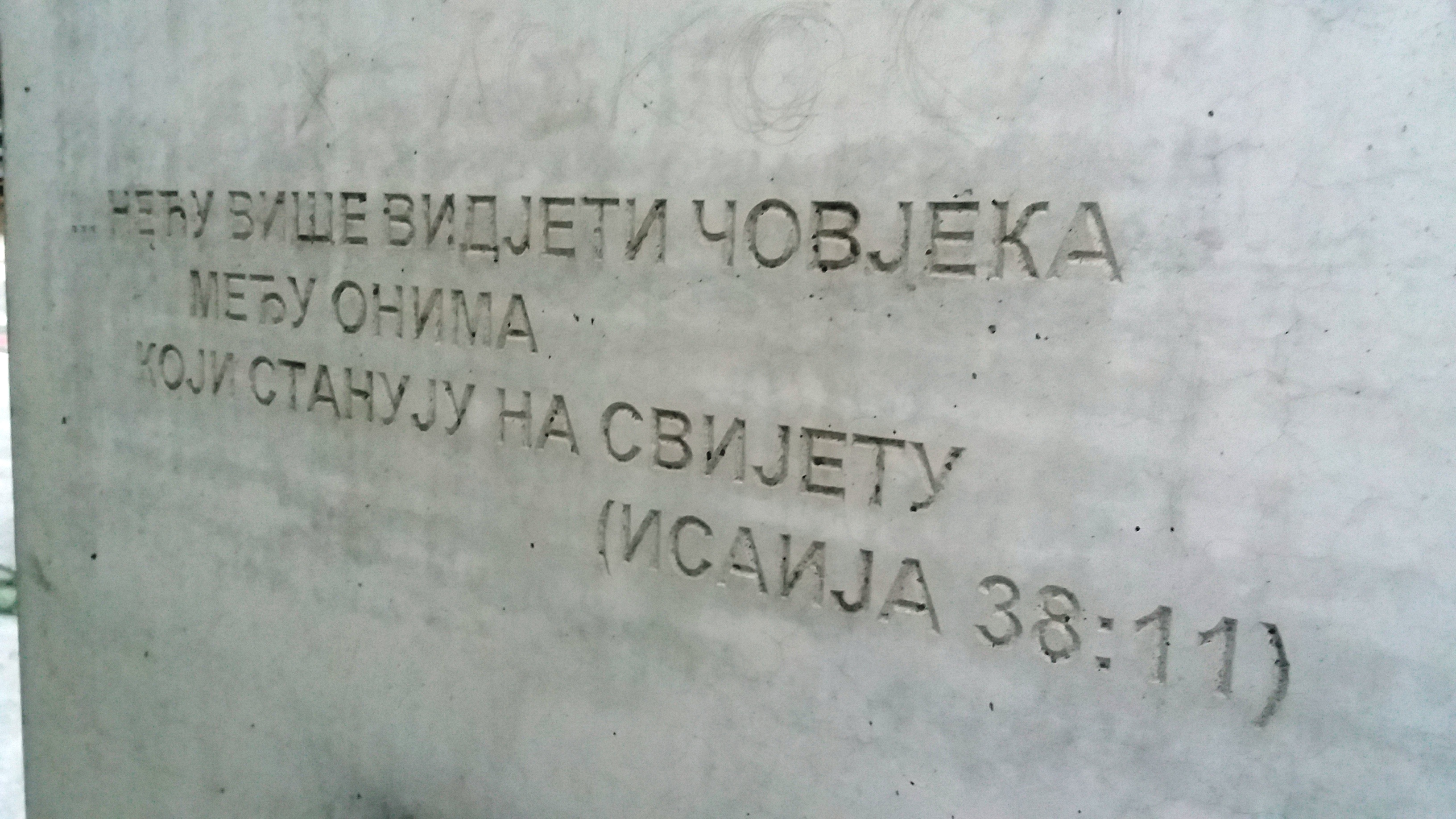 Monument to the Jews killed in the Dušegupka truck, from March to May 1942, a psalm from the Talmud